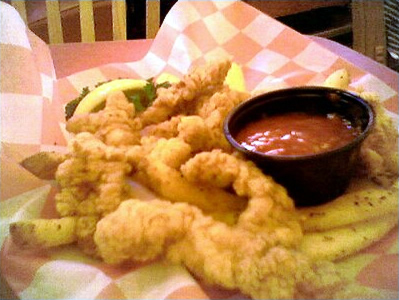 Fried alligator tail at Razzoo's, taken on a camera phone